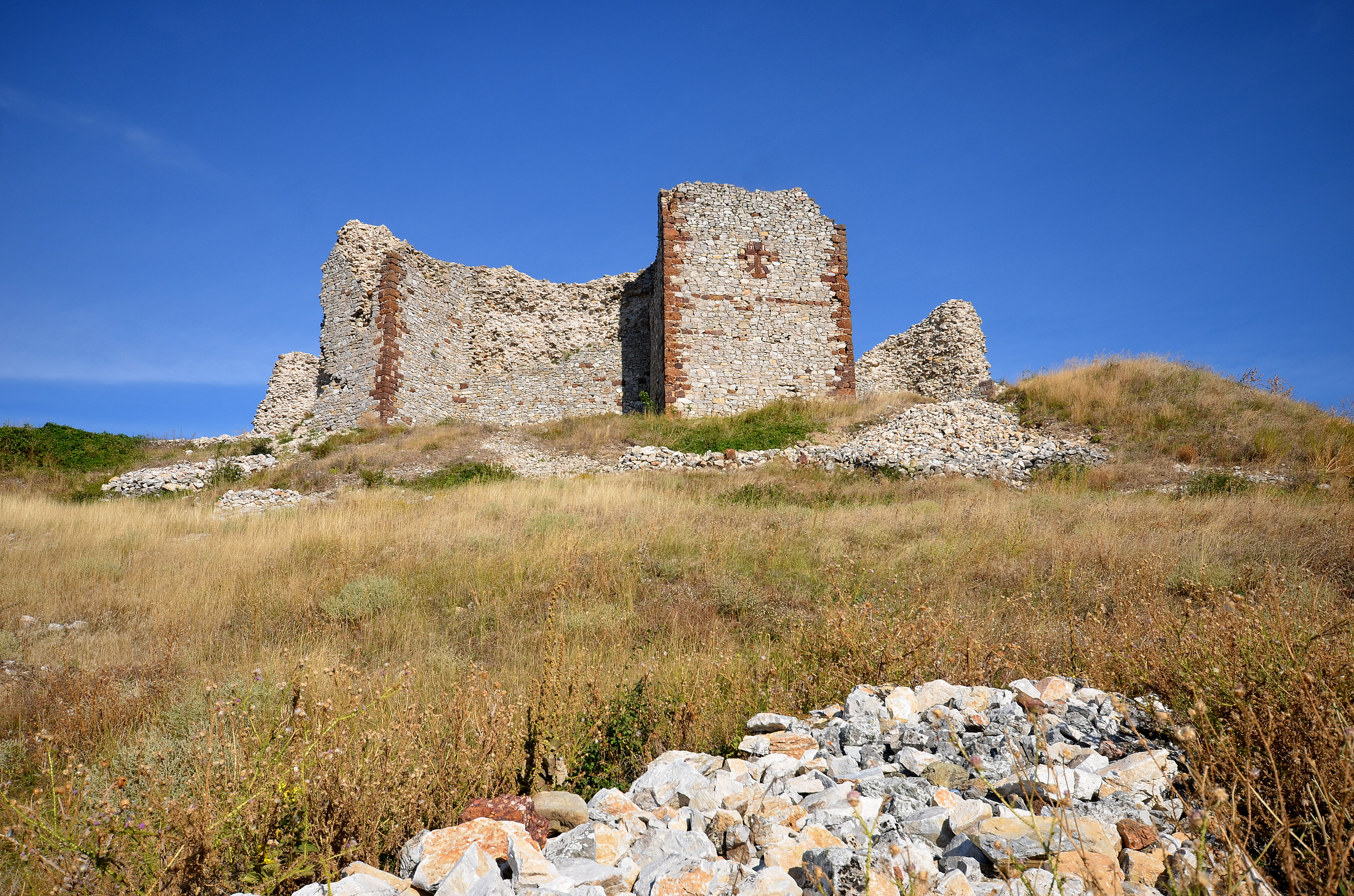 The castle of Artana- Novo Berda